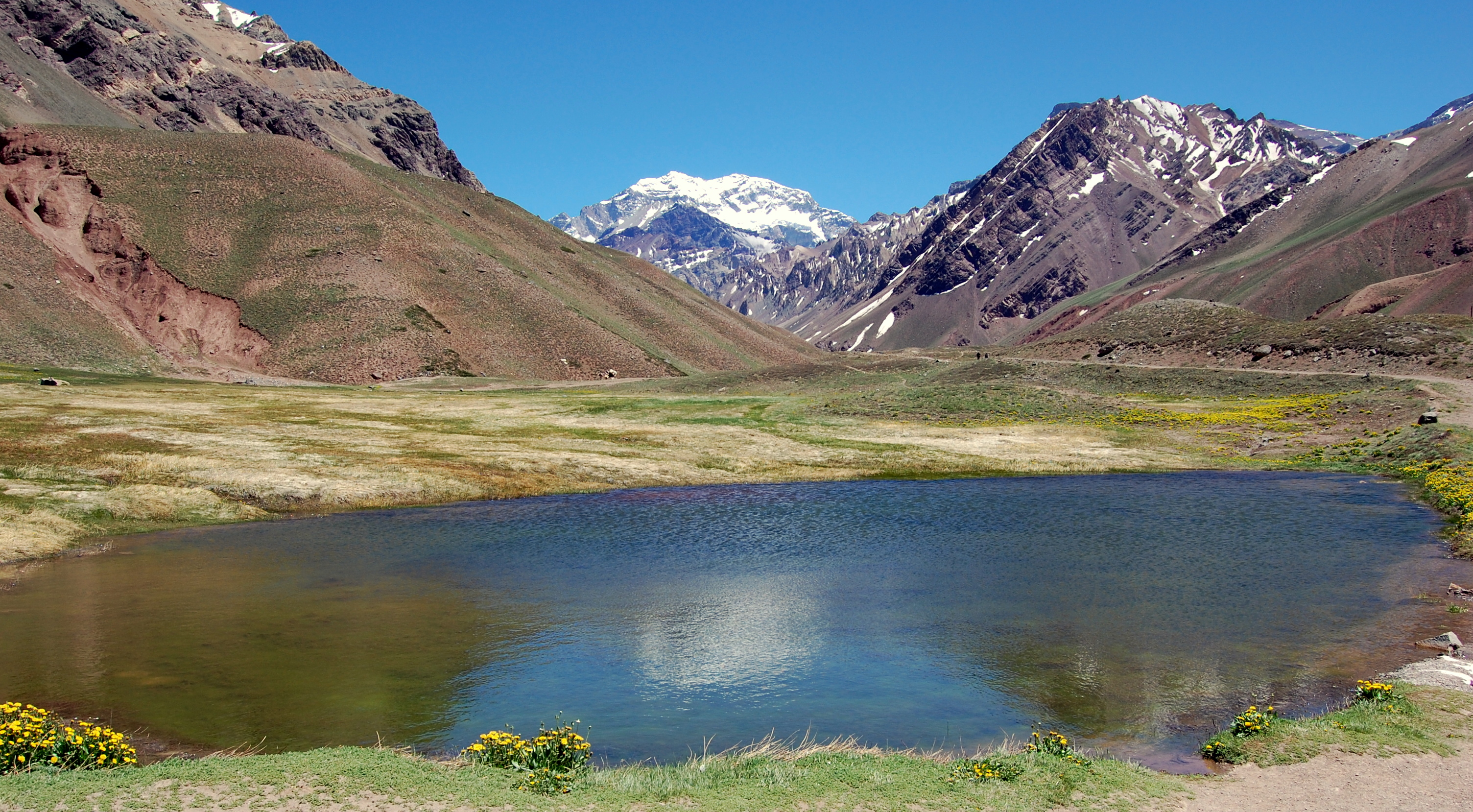 View to Aconcagua from the Espejo's Laguna